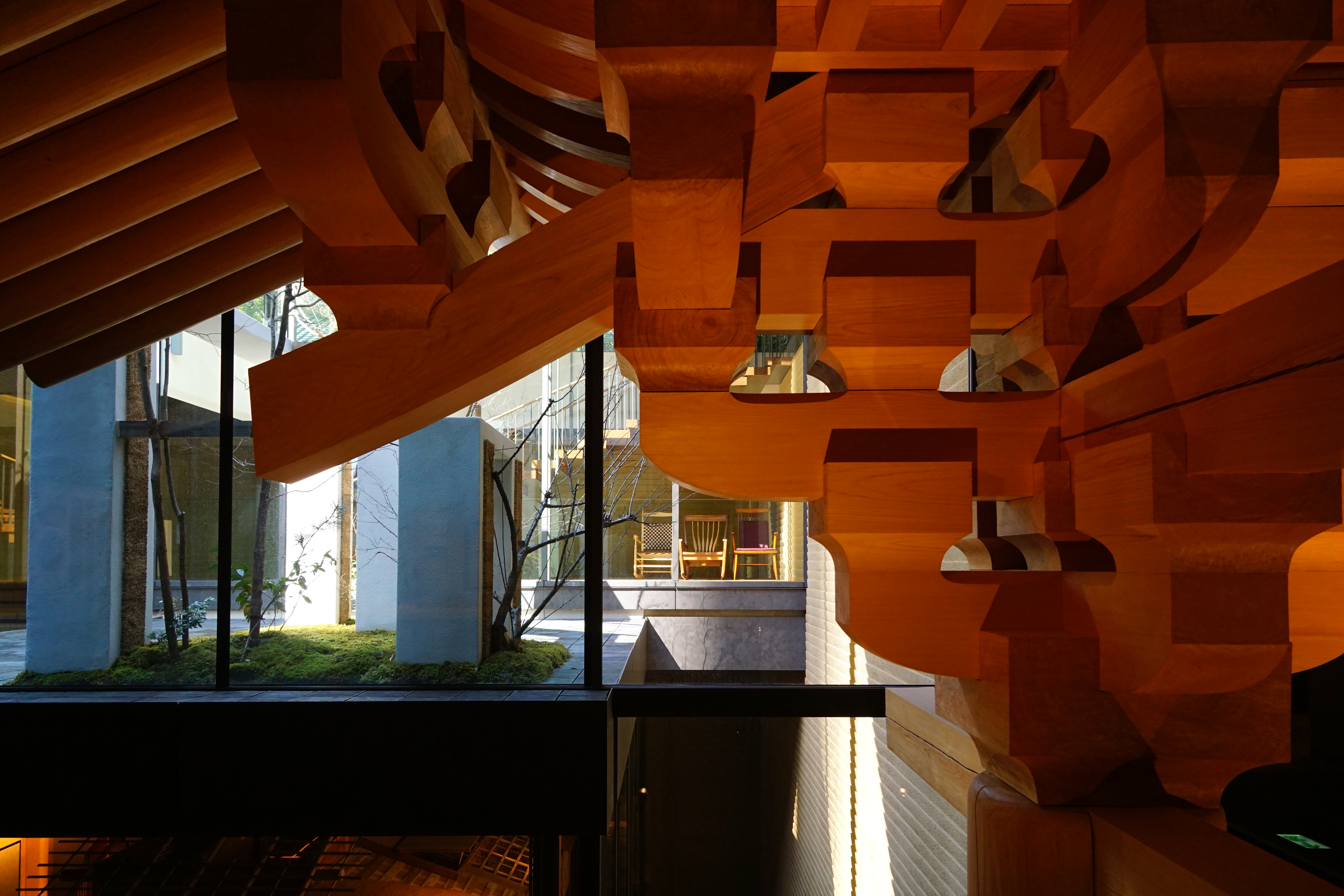 Takenaka Carpentry Tools Museum in Kobe, Hyogo prefecture, Japan.